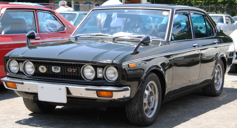 Toyota Carina 1600GT.